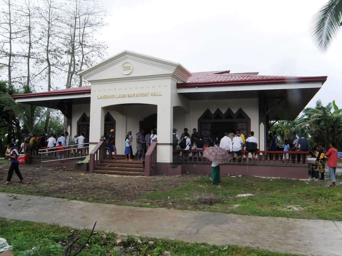 Landang Laum Barangay Hall in Zamboanga City